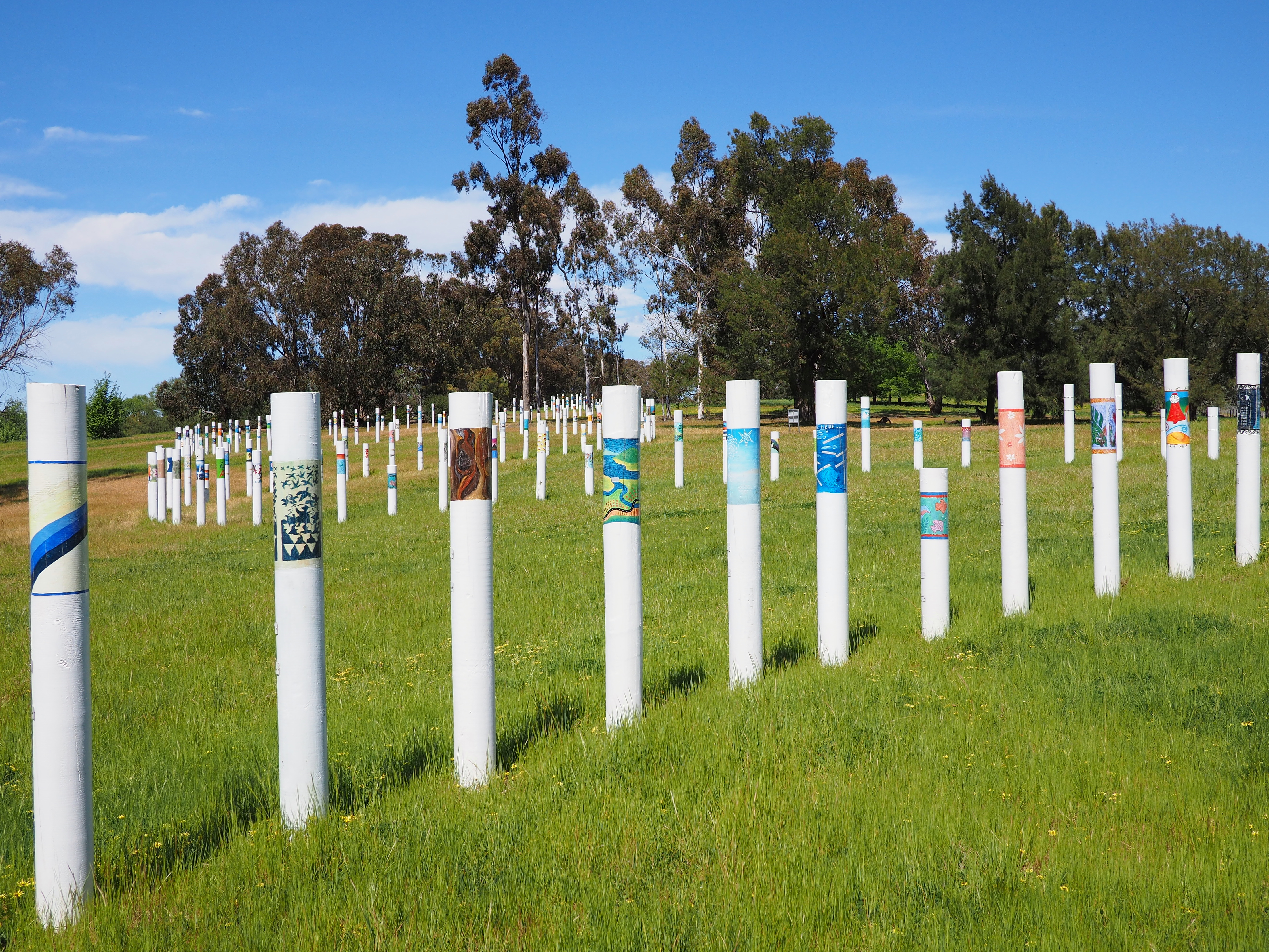 Poles leading to the south in the SIEV X Memorial